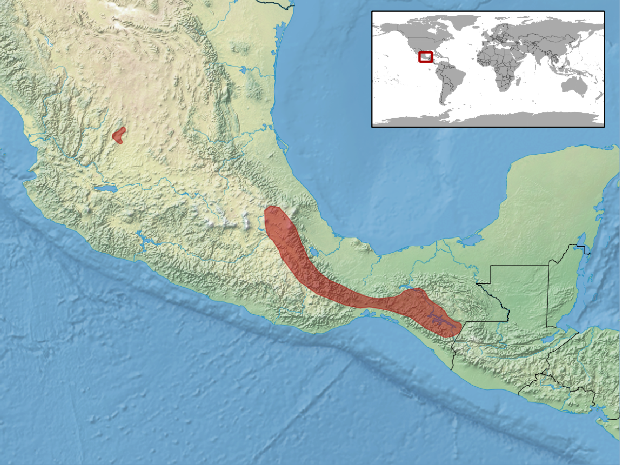 geographic distribution of Gerrhonotus liocephalus (Native: Mexico)